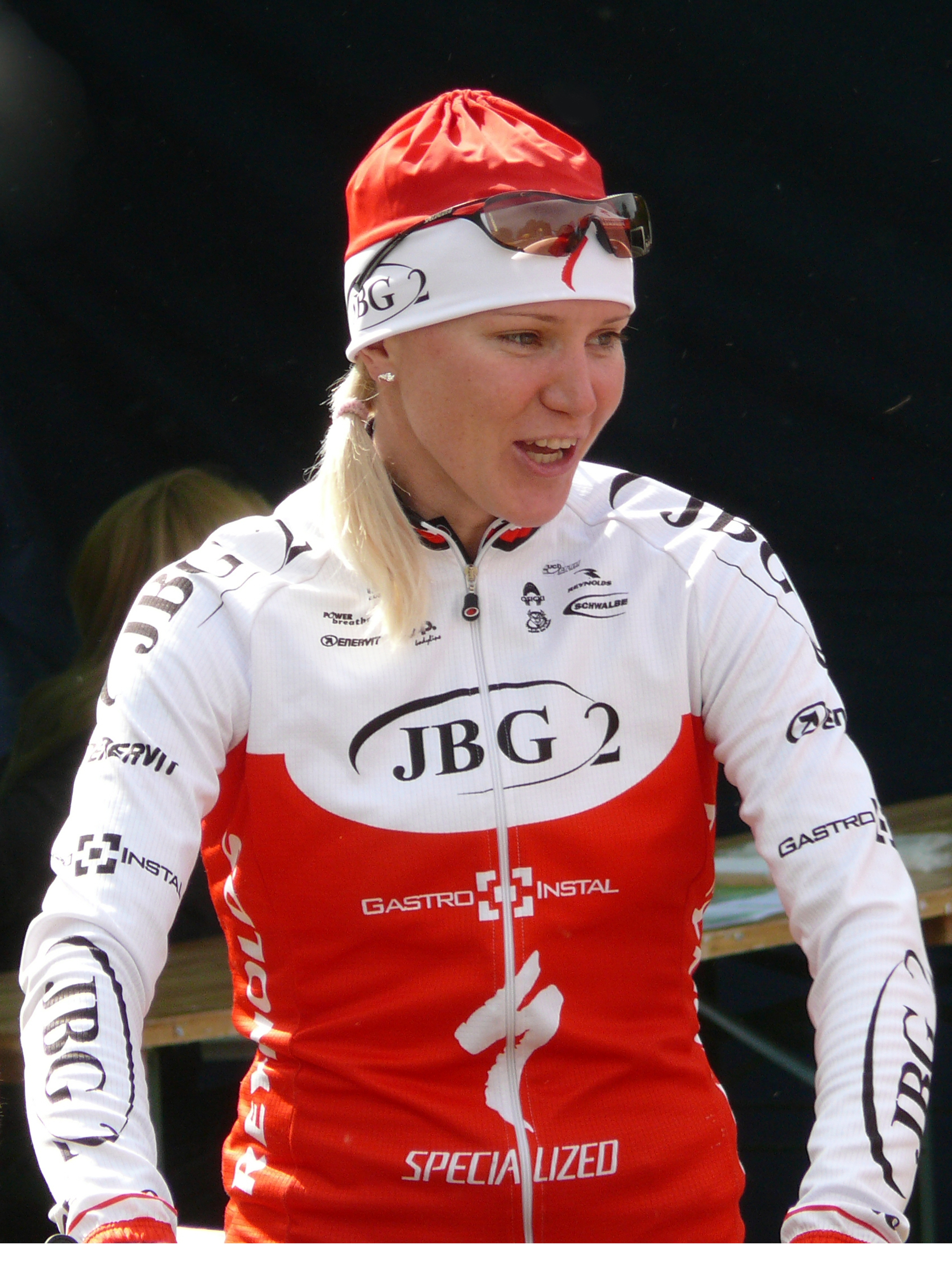 Anna Szafraniec during MTB race-Jelenia Góra Trophy